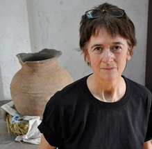 Picture of Dr. Joyce White